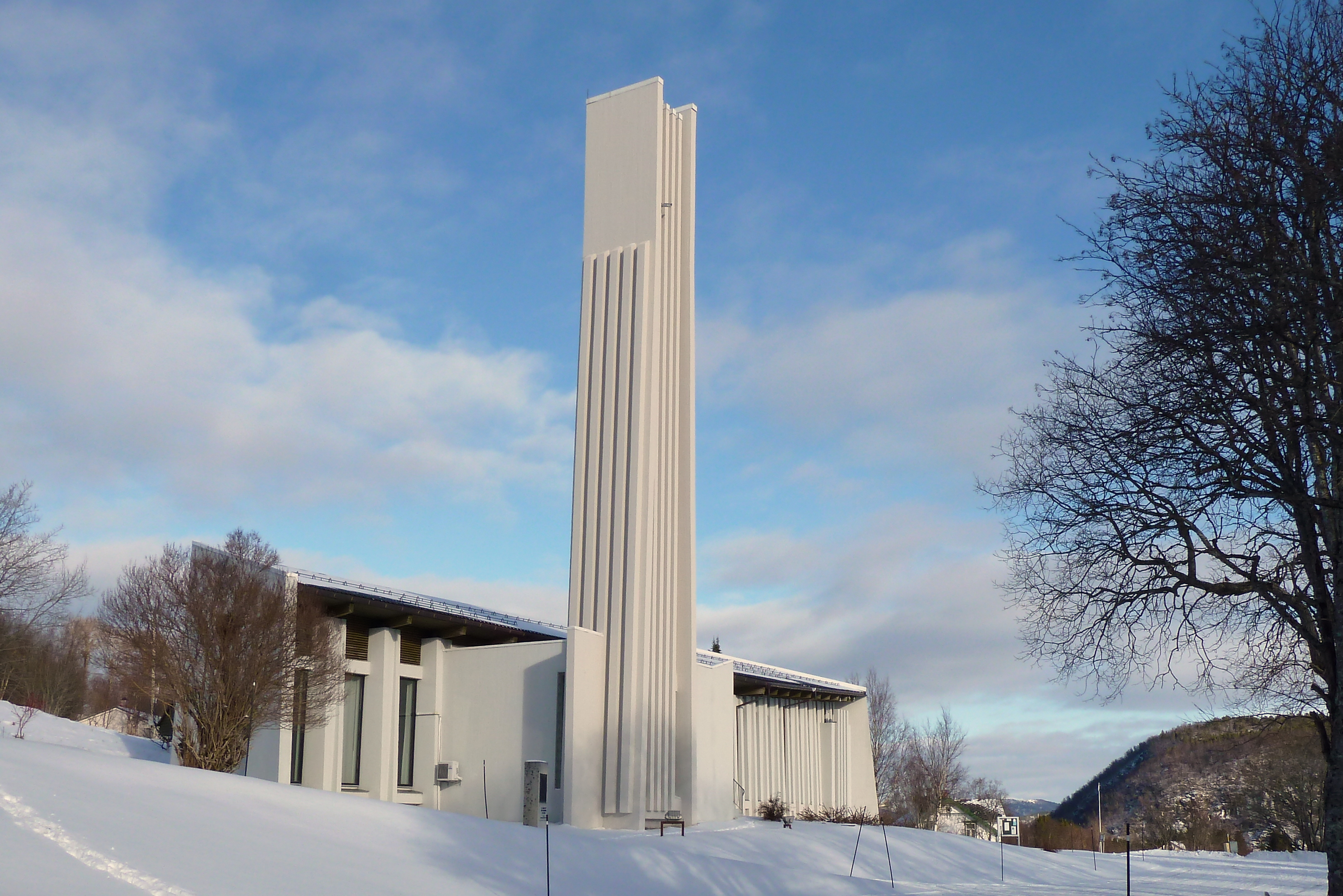 Hamarøy church at Presteid, Norway.